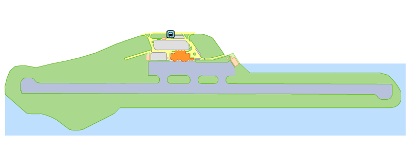 San sebastian airport.